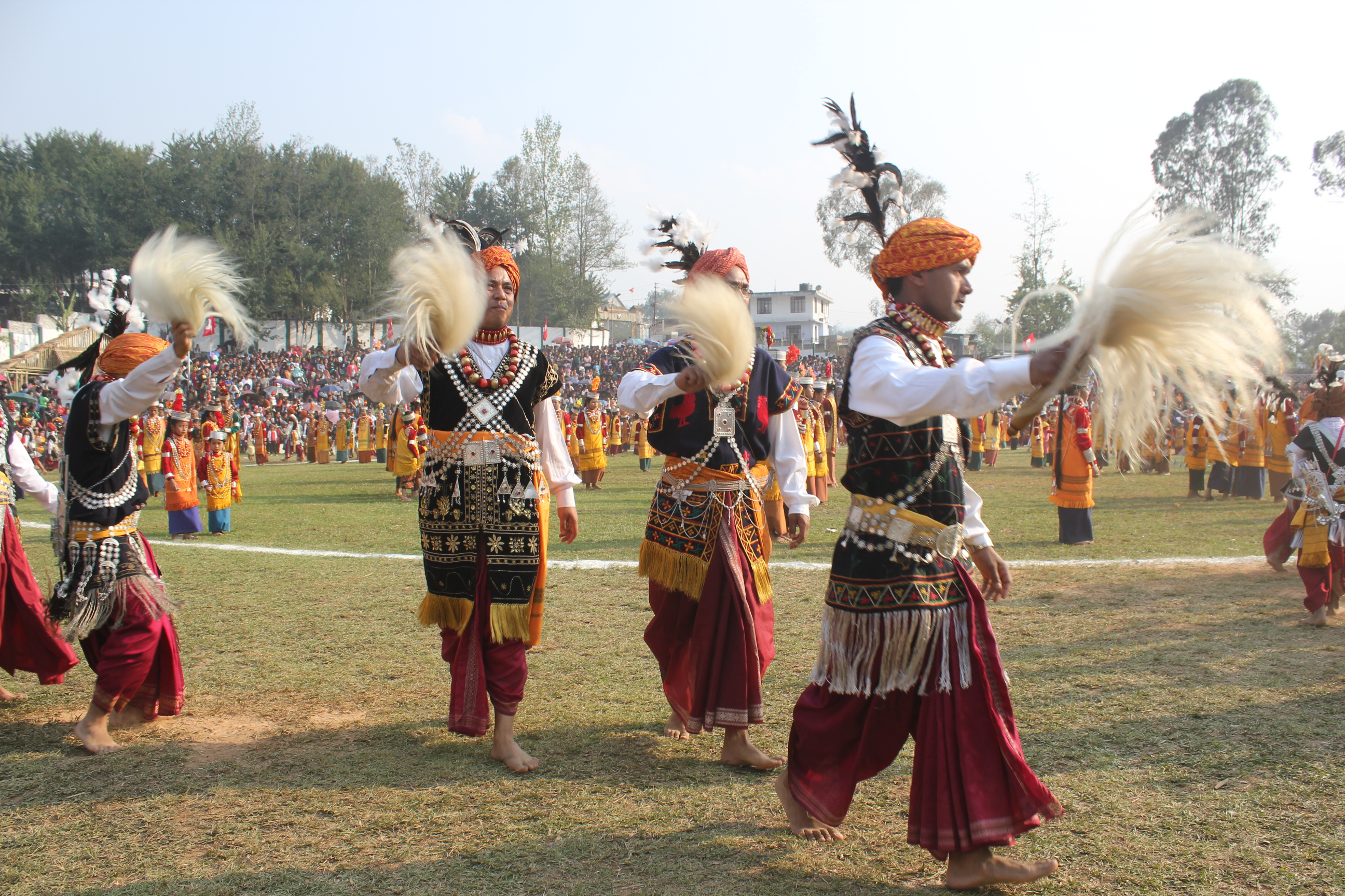 Men dance during the Khasi festival of Shad Suk Mynsiem in Shillong, Meghalaya, India